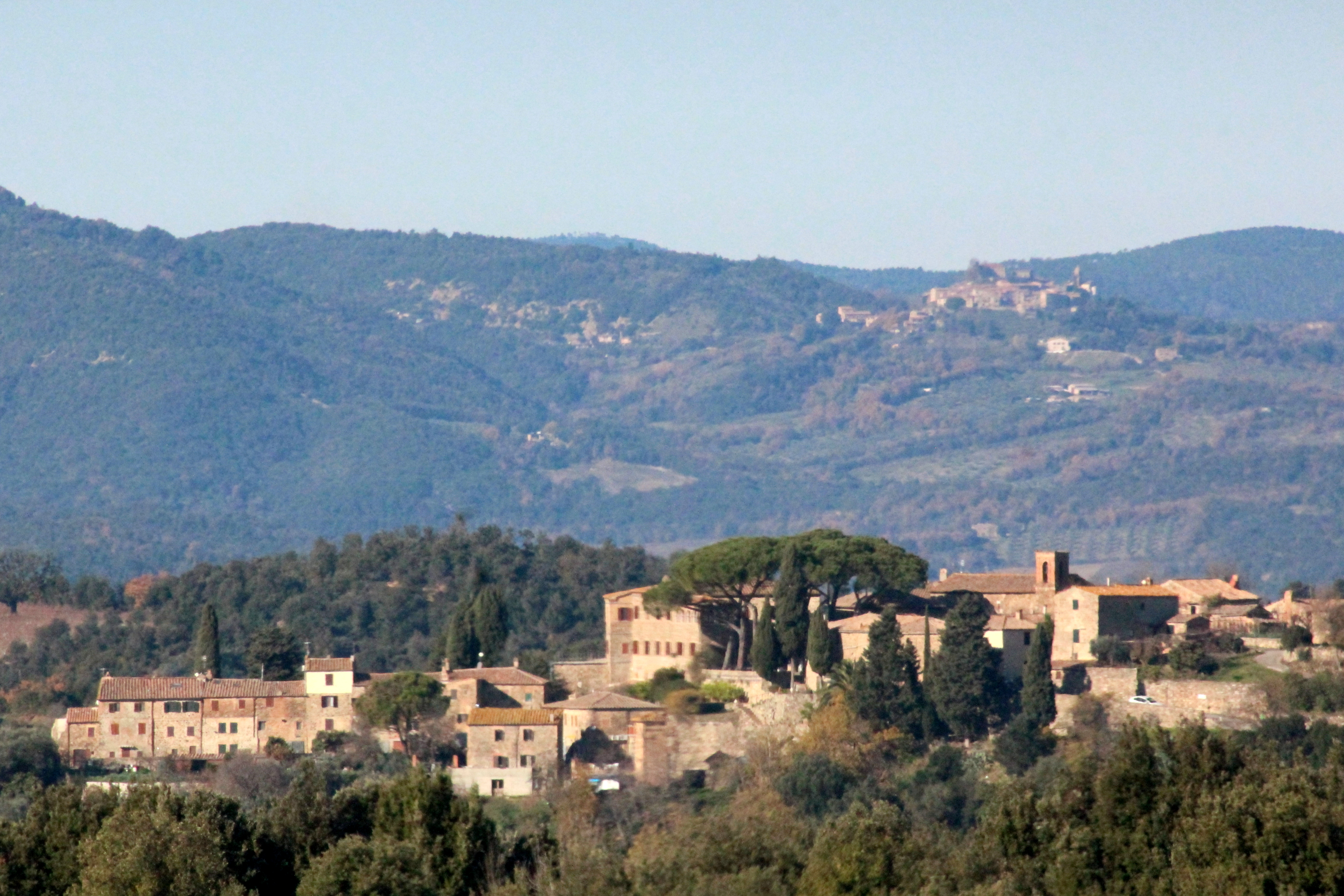 Panorama of Camigliano, hamlet of Montalcino, Province of Siena, Tuscany, Italy